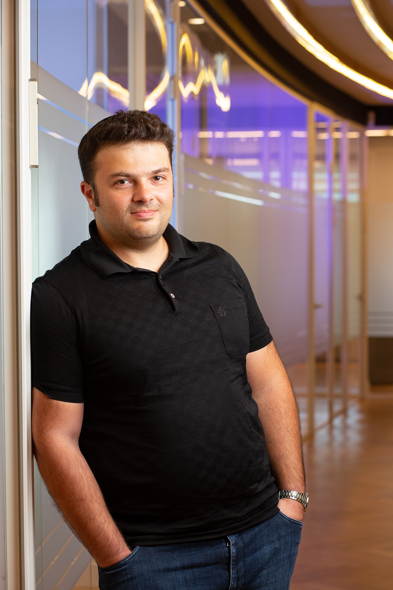 Portrait of Yitzchak Mirilashvili